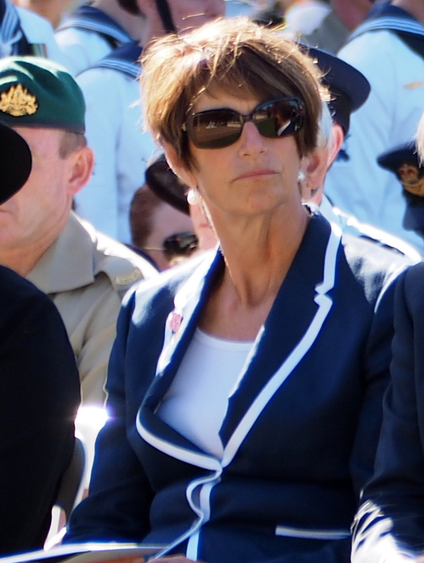 Margie Abbott at the Canberra Operation Slipper Welcome Home Ceremony